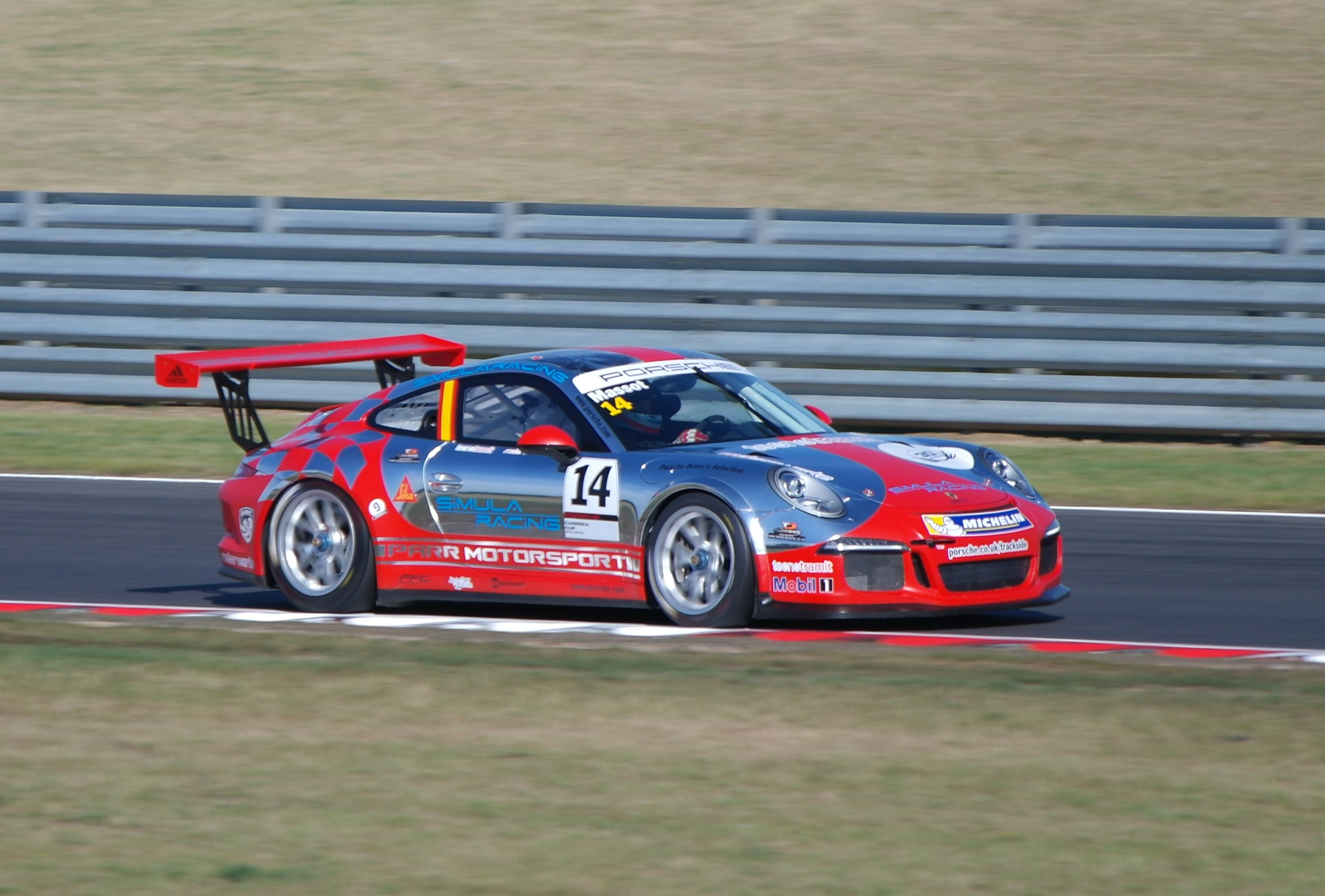 Massot in his Parr Motorsport Porsche 911 GT3 car at Snetterton circuit in Norfolk